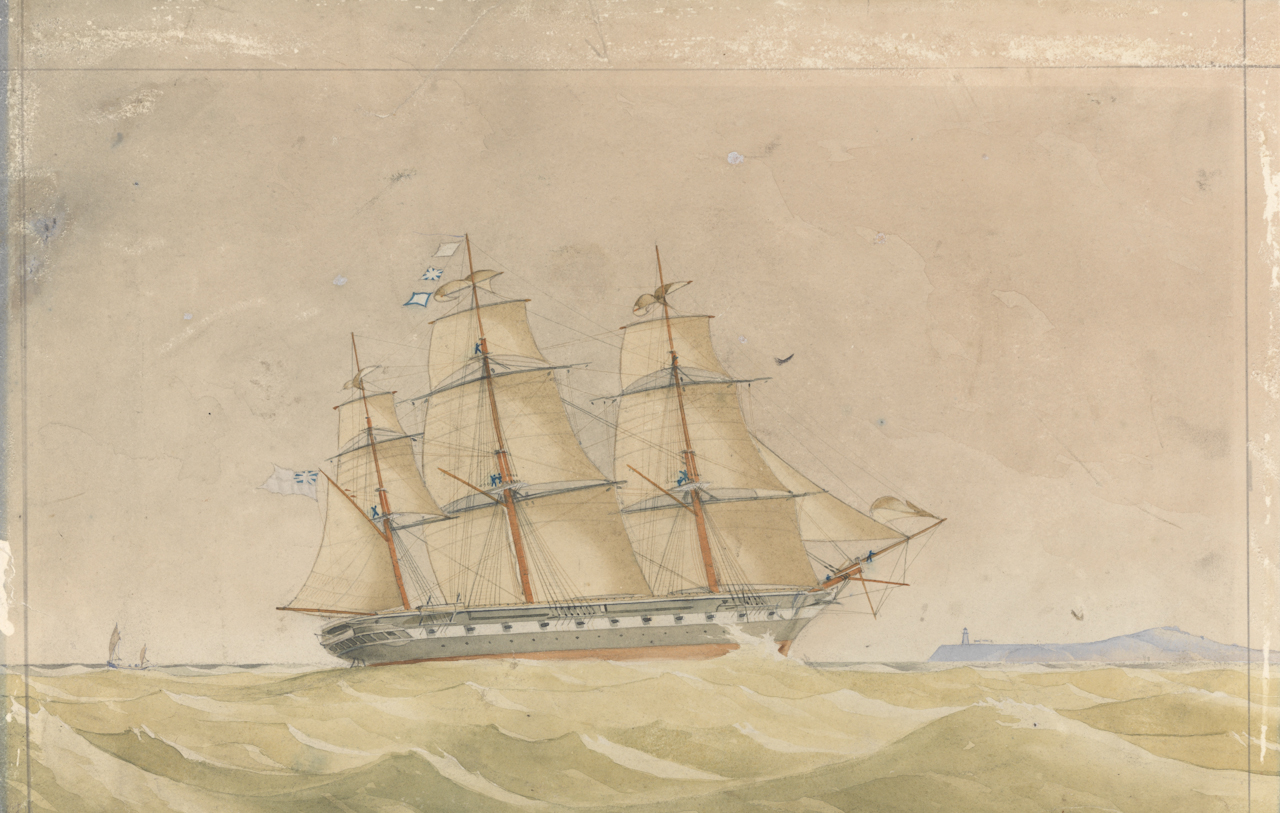 (H.M.S. Racoon, by Captain George Pechell Mends PY0970 NMM 140917 Watercolour, drawing